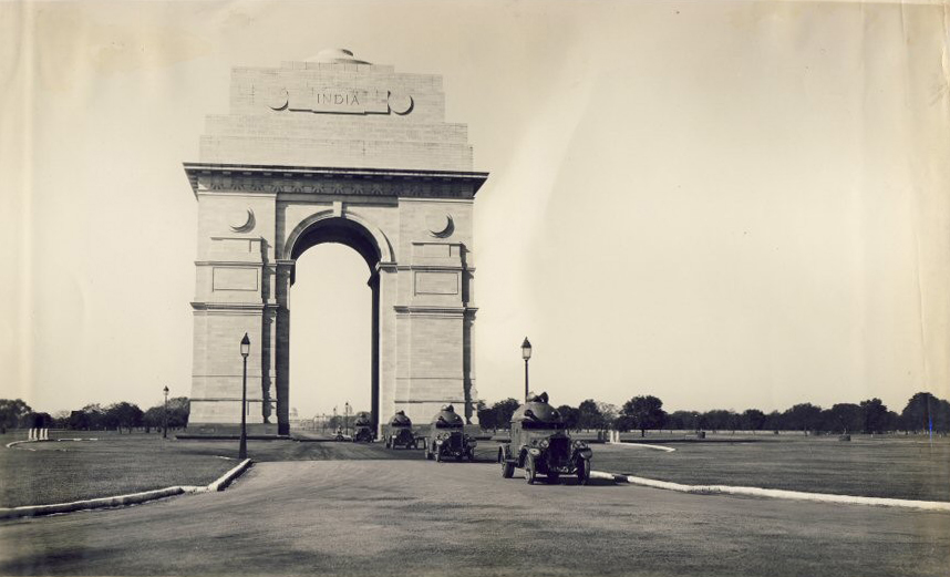 India Gate with armored cars in 1930s